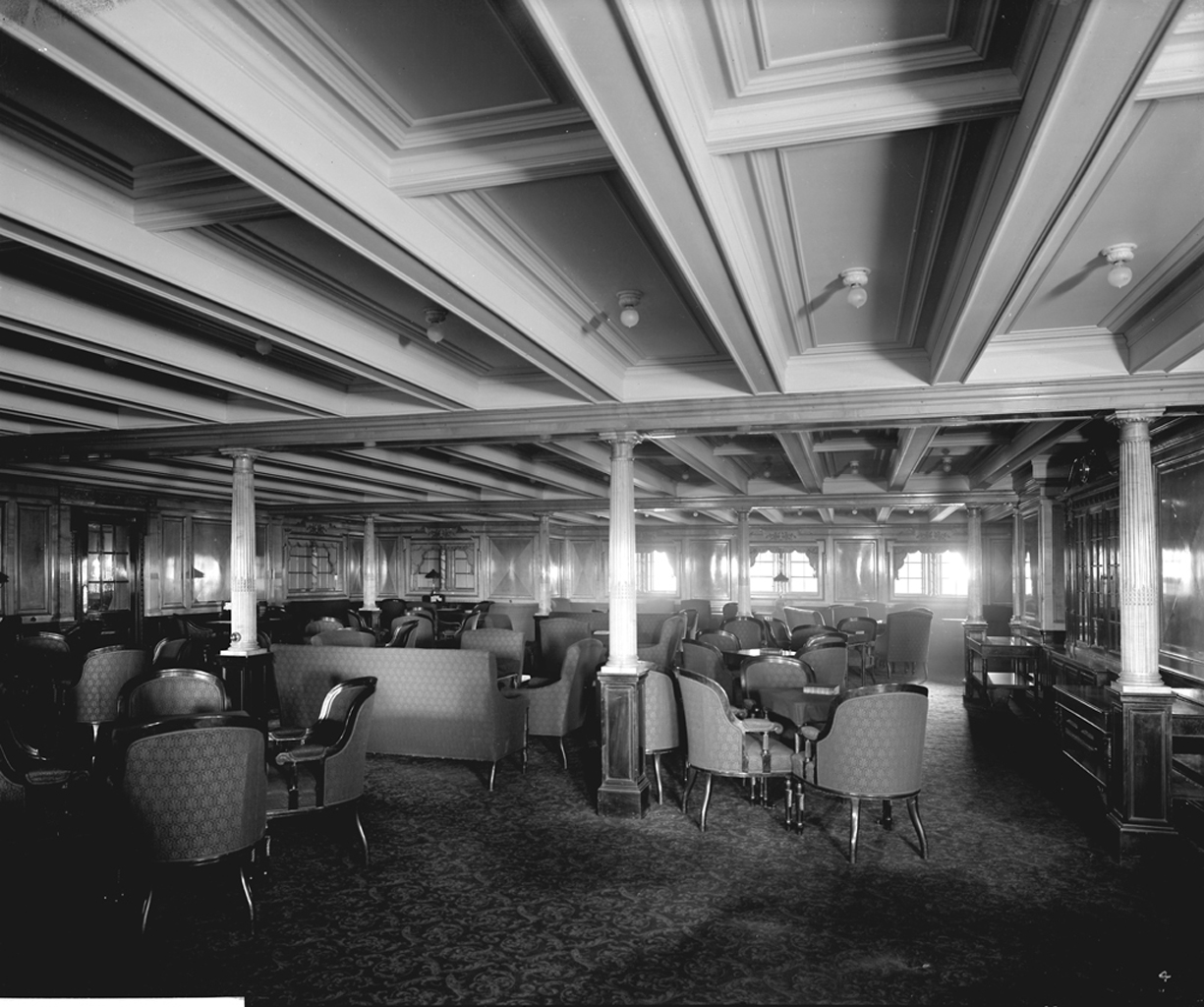 Contemporary photography of the 2nd-Class Library on the RMS Olympic.